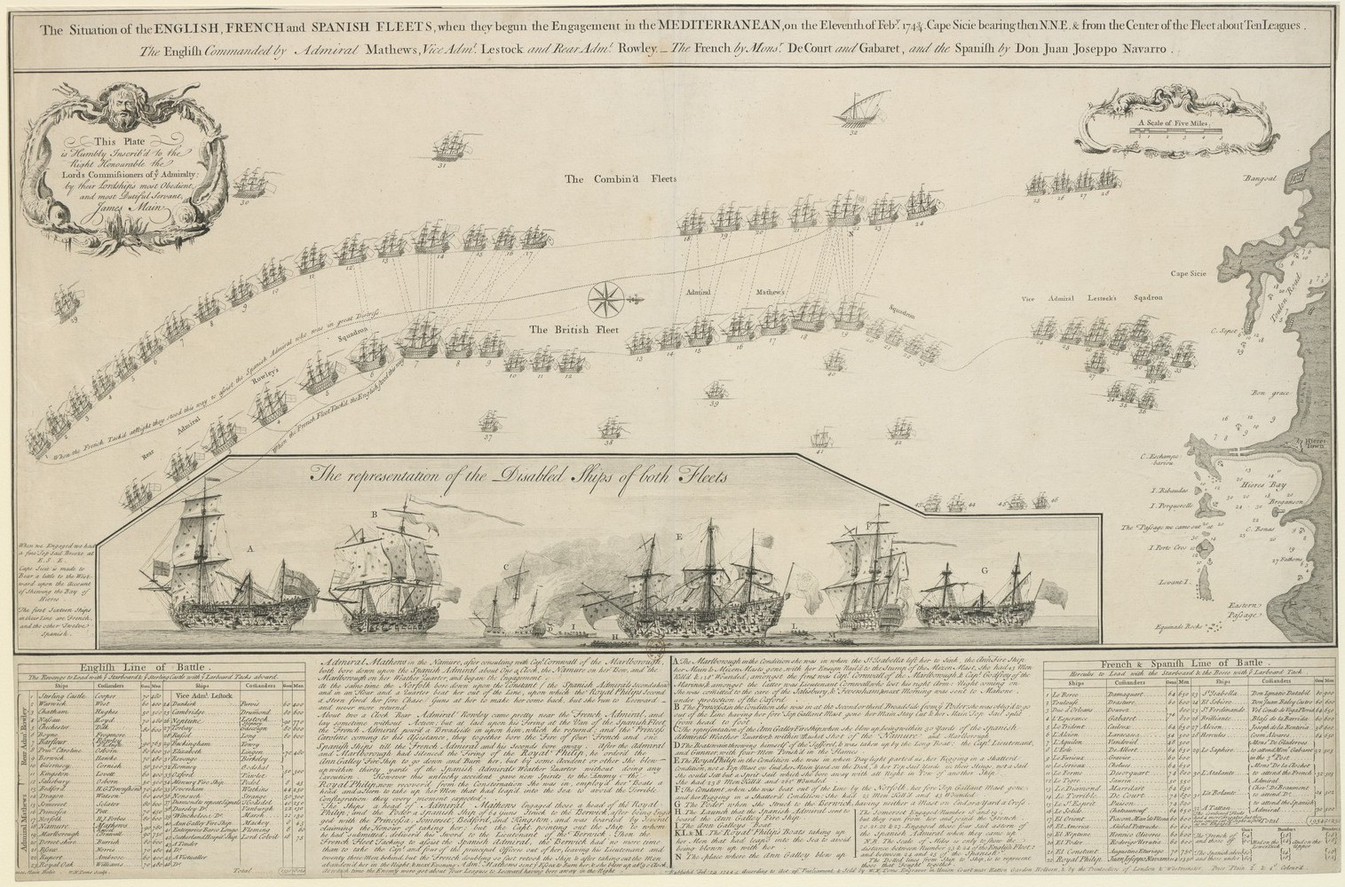 English engraving depicting the battle at Toulon in 1744 with a summary of the action and a description of the most damaged vessels.